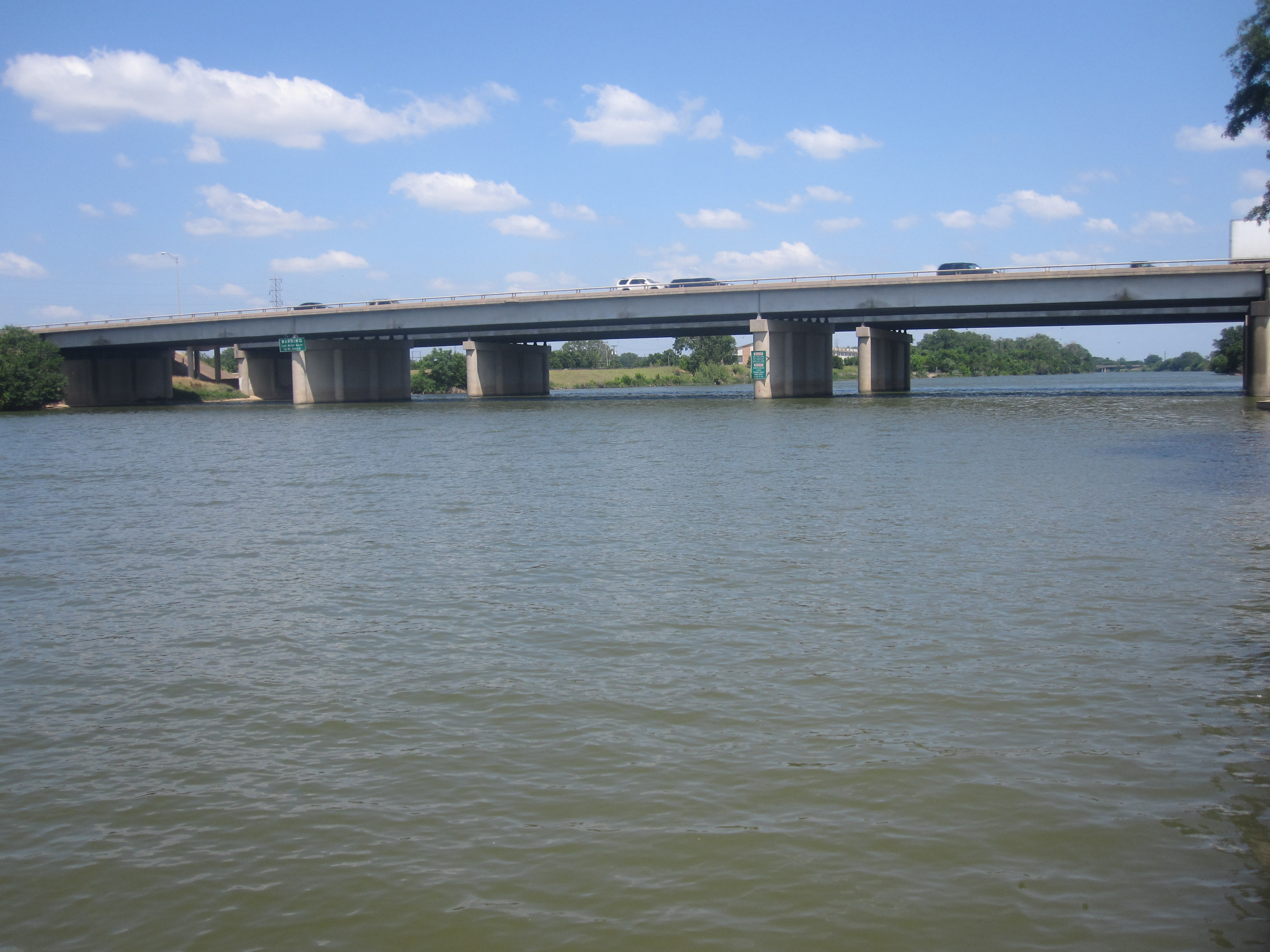 I took photo in Waco, Texas, at Brazos River.